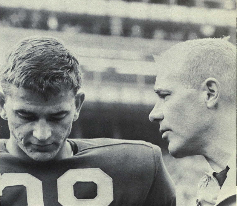 Photograph of Bob Timberlake and Bump Elliott